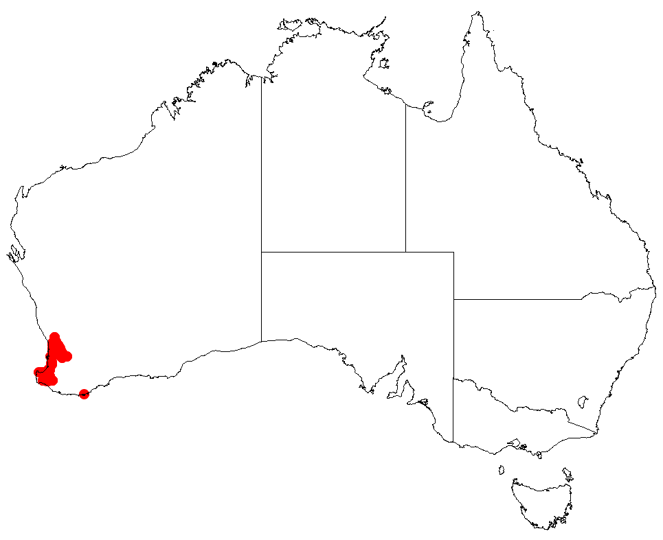 Hakea cyclocarpa Occurrence data downloaded from Australasian Virtual Herbarium on 22 November 2018 using